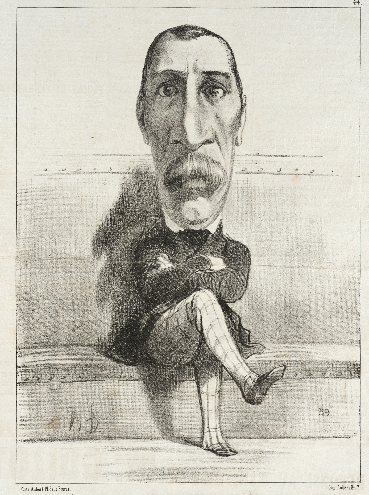 France, 1849 Series: Les Représentans Représentés Periodical: Le Charivari, 10 May 1849 Prints; lithographs Lithograph Gift of Mr. George Longstreet (M.60.19.15) Prints and Drawings